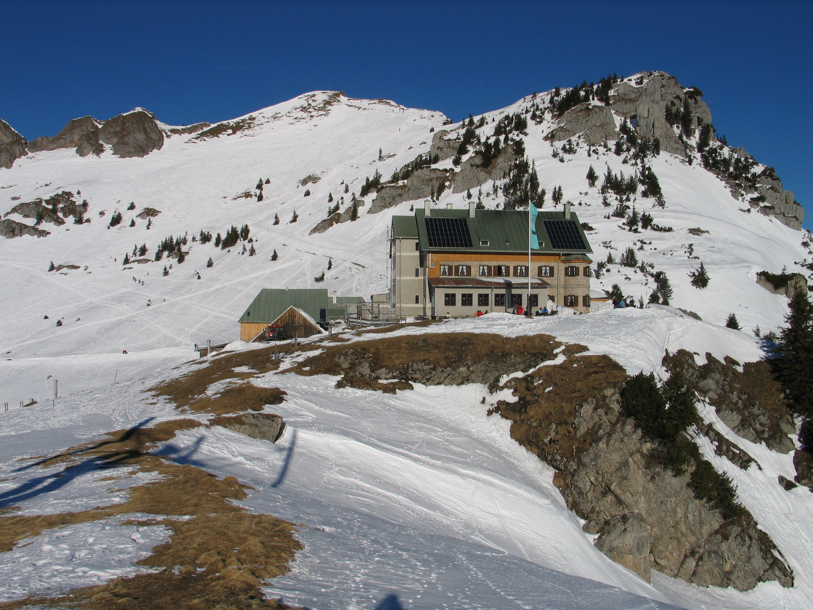 Rotwandhaus